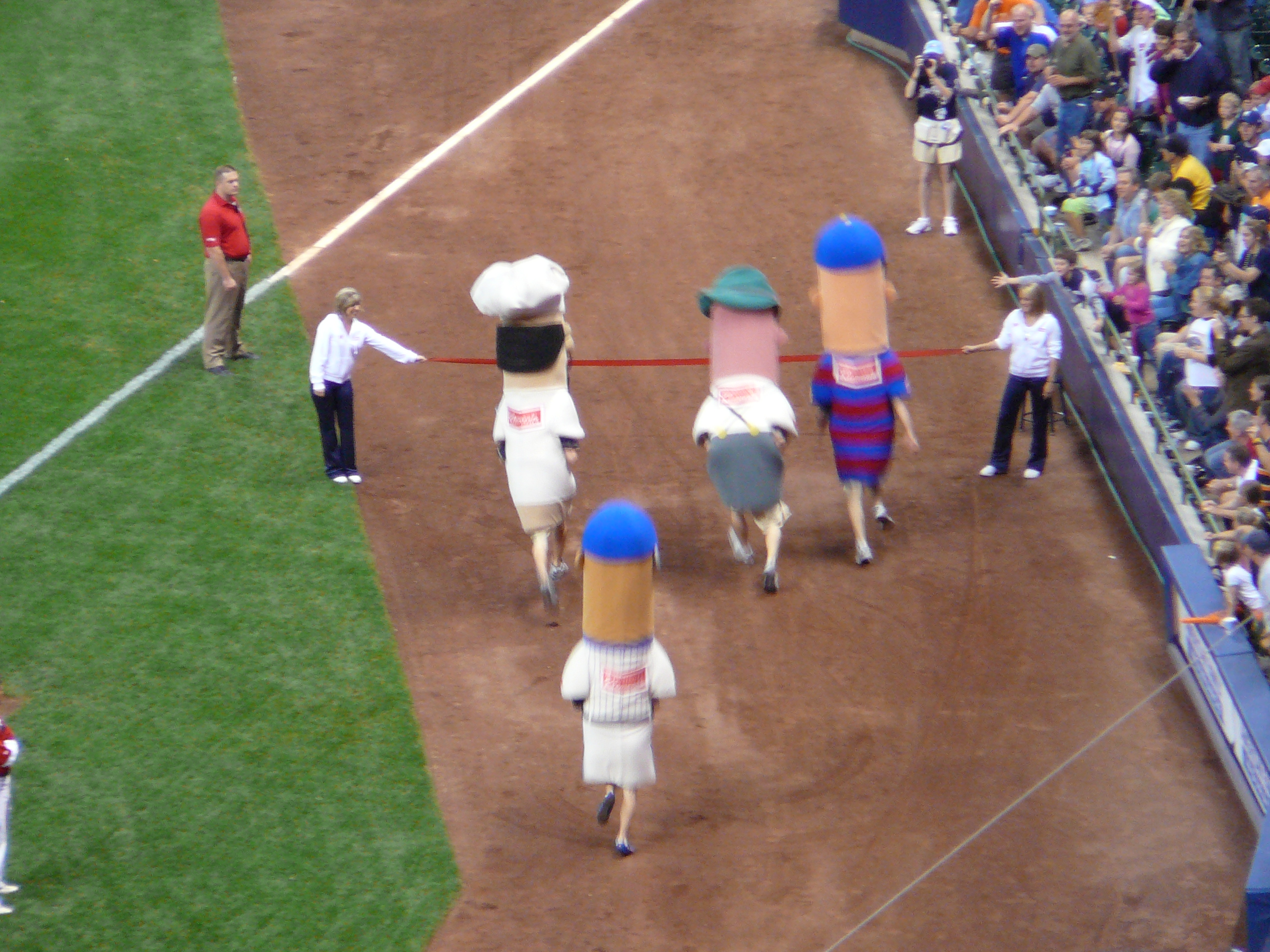 The sausages near the finish line of the Sausage Race, a tradition at Milwaukee Brewers baseball games.